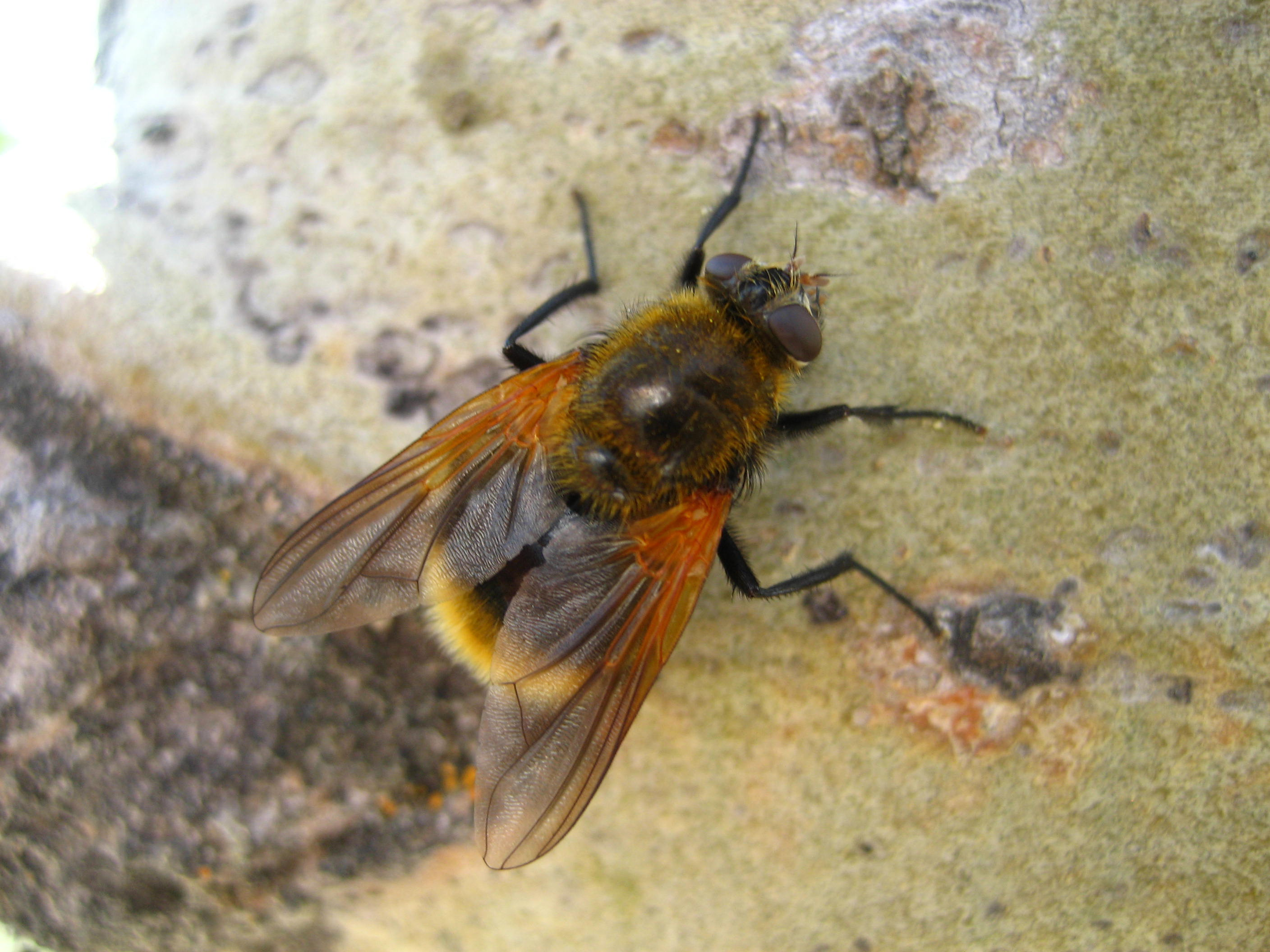 Unknown fly looks like a bee Syrphidae